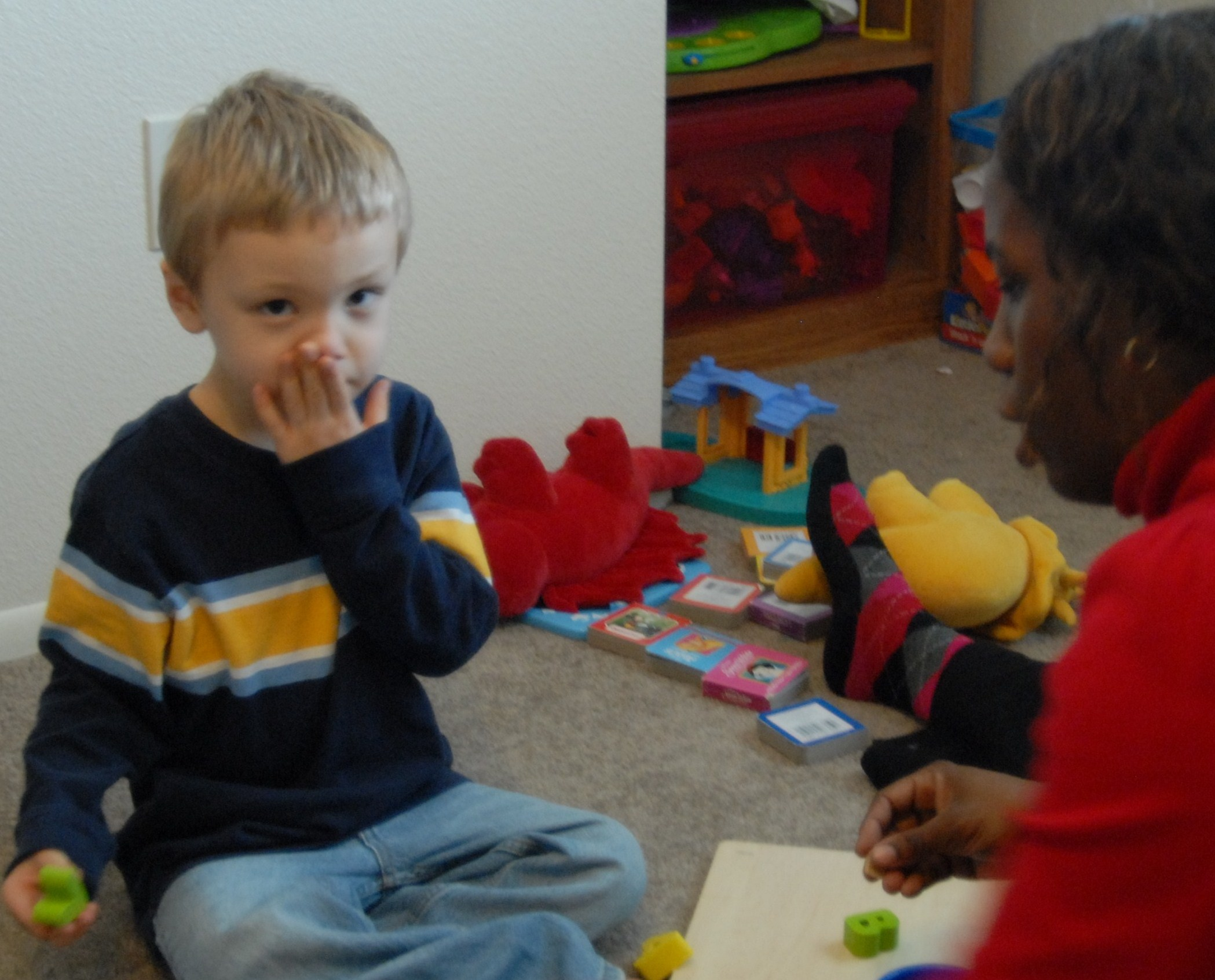 Autistic boy, works with behavioral therapist, to identify the letters A and B as part of a therapy program designed to treat autism spectrum disorder.